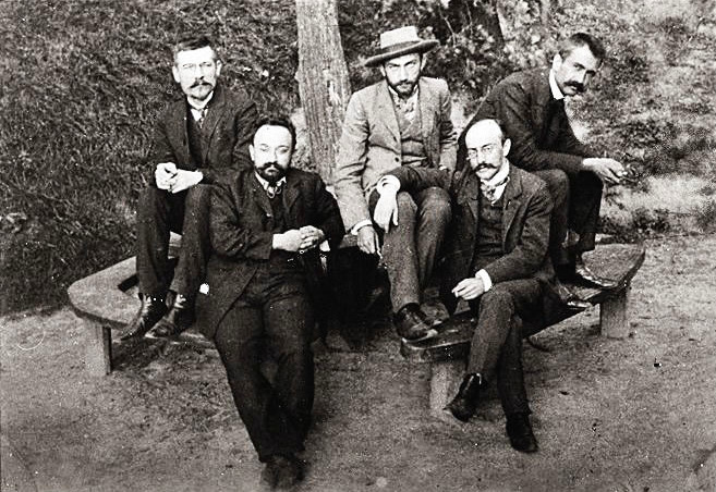 Activists of Polska Partia Socjalistyczna before 1905. From the left: Bolesław Czarkowski, Aleksander Sulkiewicz, Bolesław Jędrzejowski, Józef Kwiatek, Walery Sławek